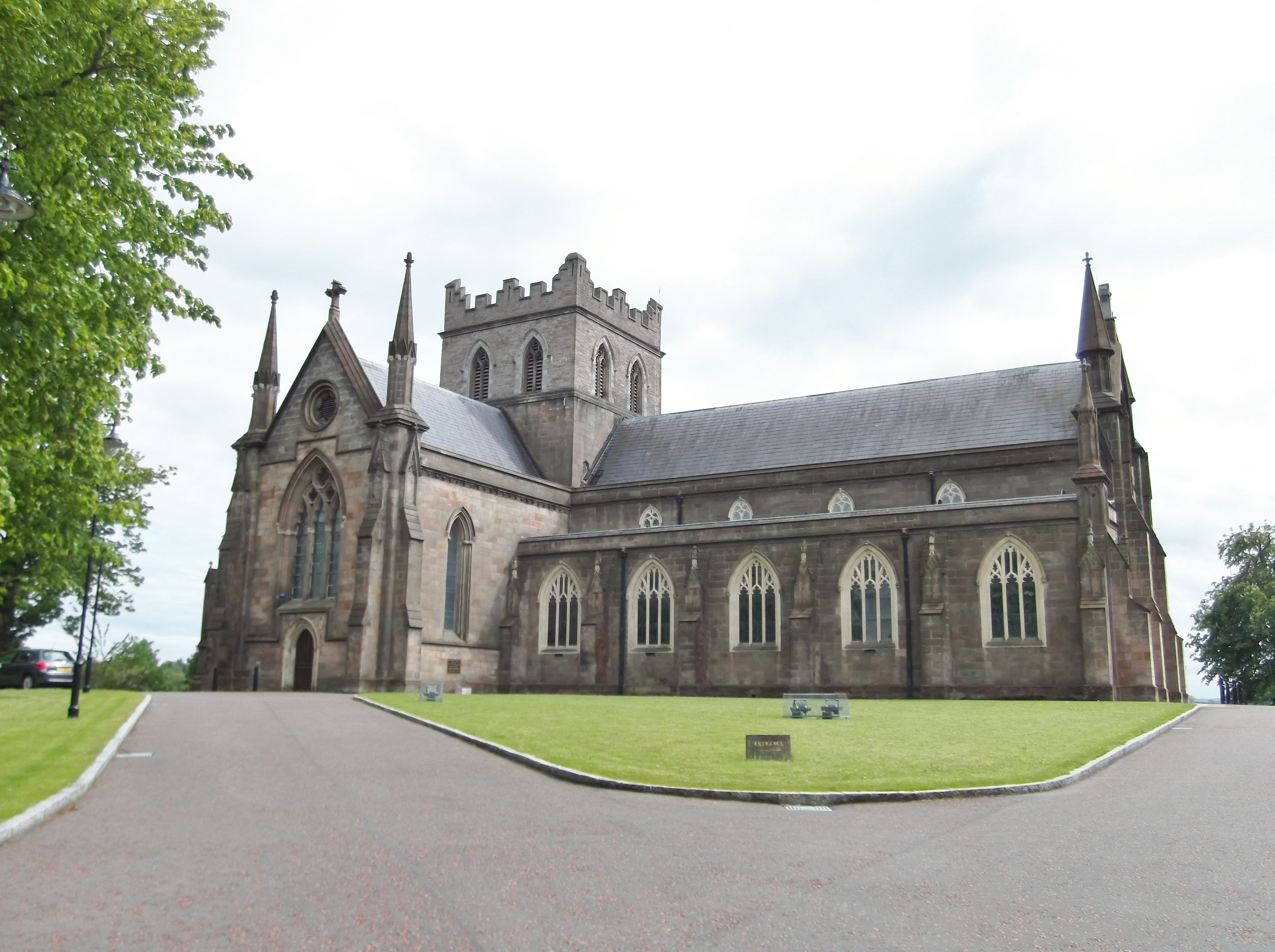 Photograph of St Patrick's Church of Ireland Cathedral, Armagh, Northern Ireland